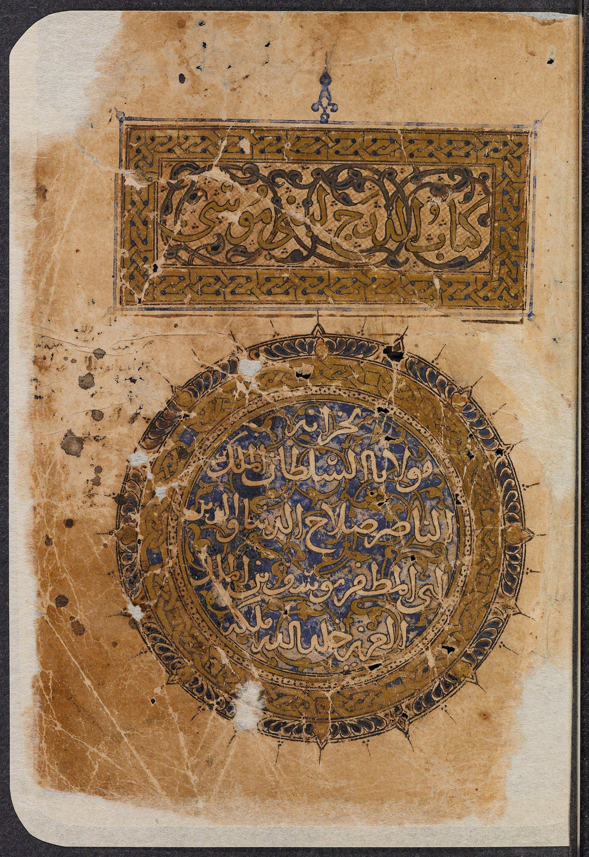 Kitāb al-Daraj, by Ibn Shākir, Aḥmad ibn Mūsá. Treatise on astrology.